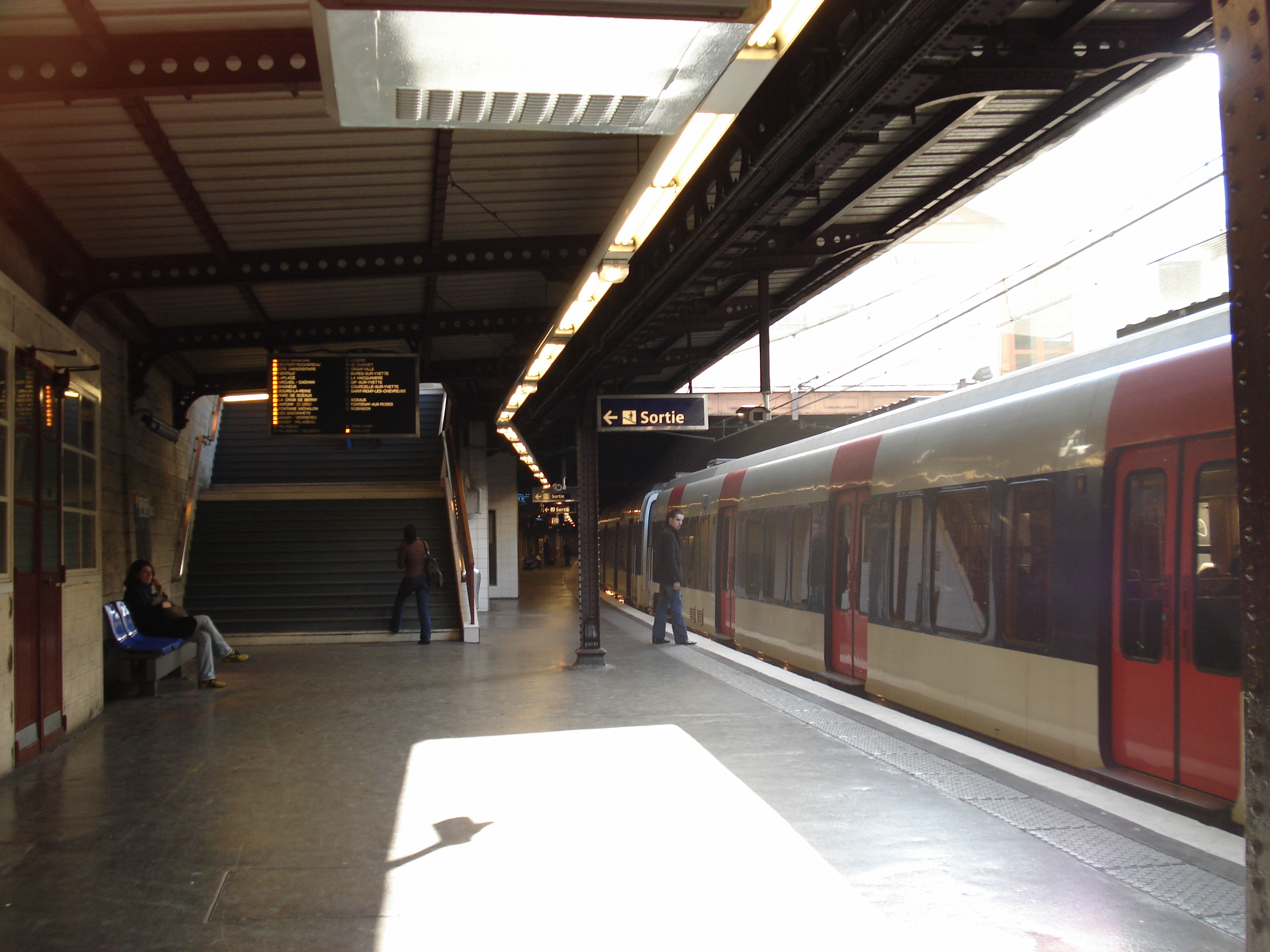 Station RER Port-Royal, Paris, France.